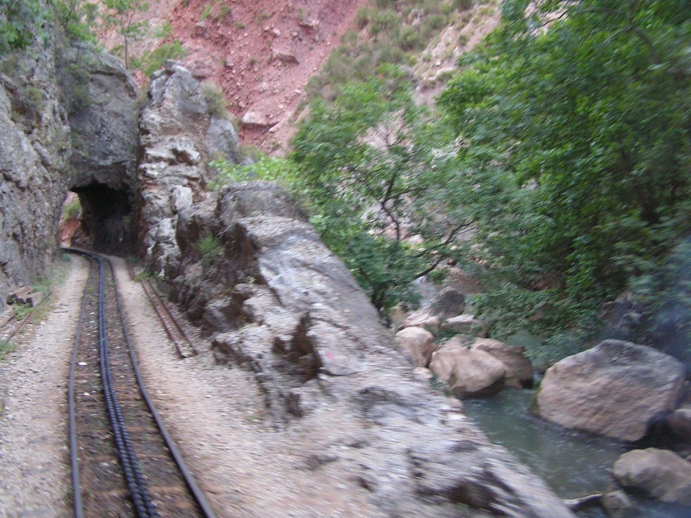 Diakofto Kalavrita Railway.